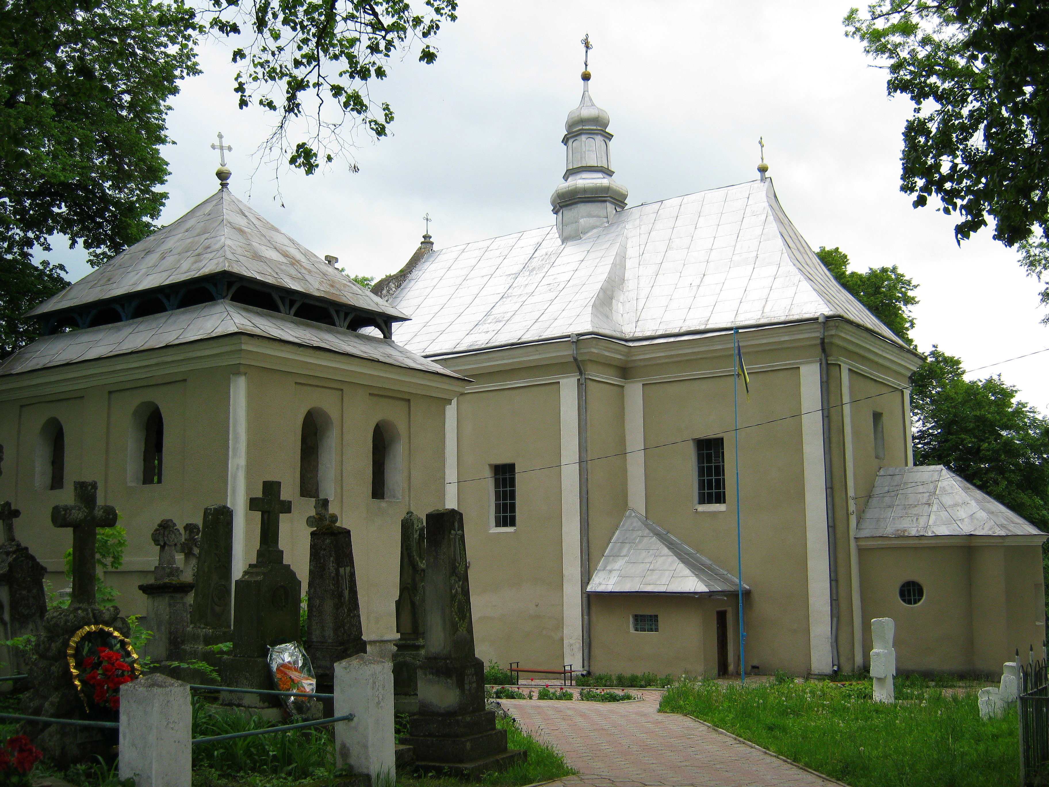 Church in Chernyhivtsi